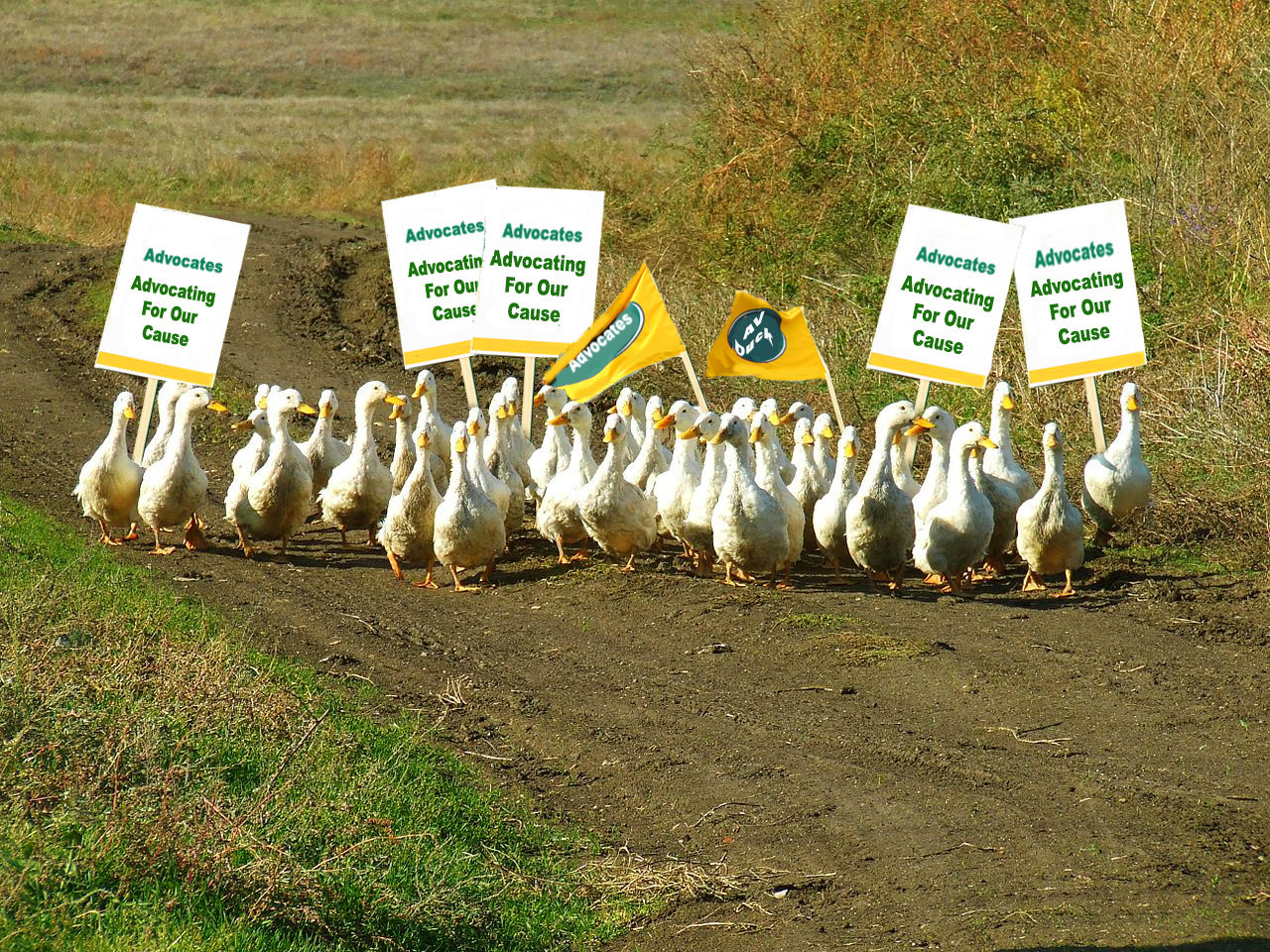 White ducks holding picket signs. Composite image.